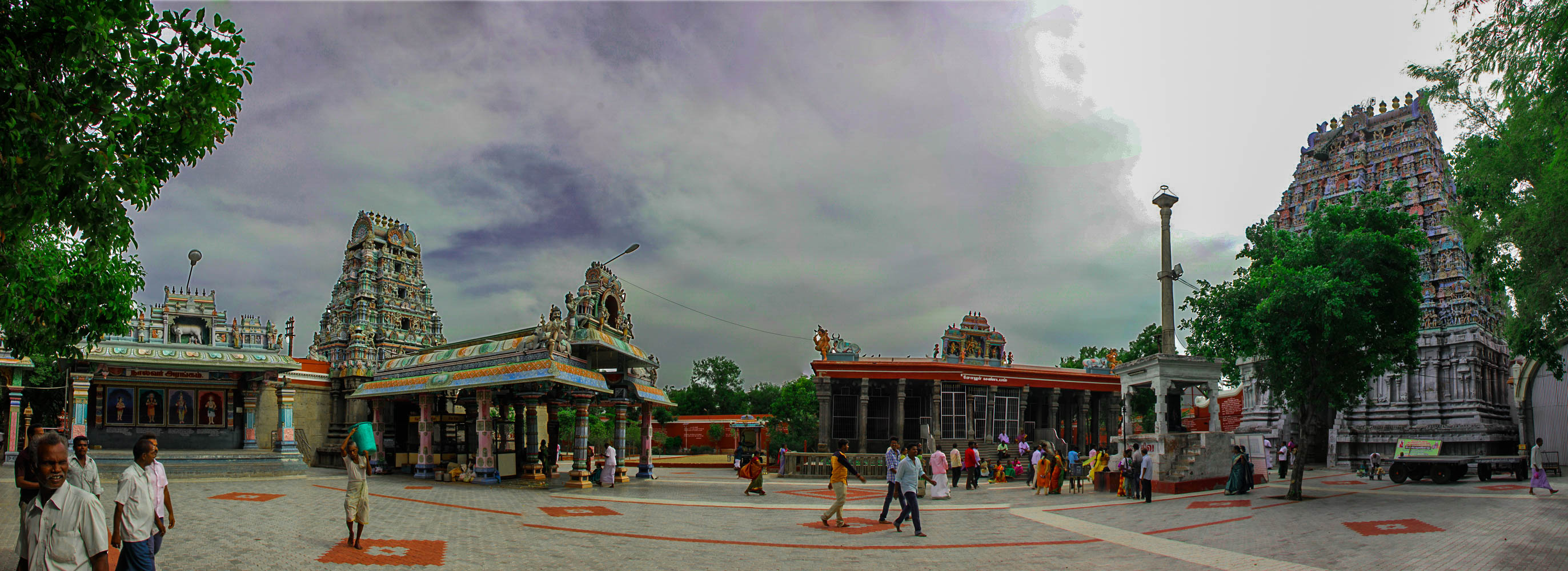 I captured at one wedding programme